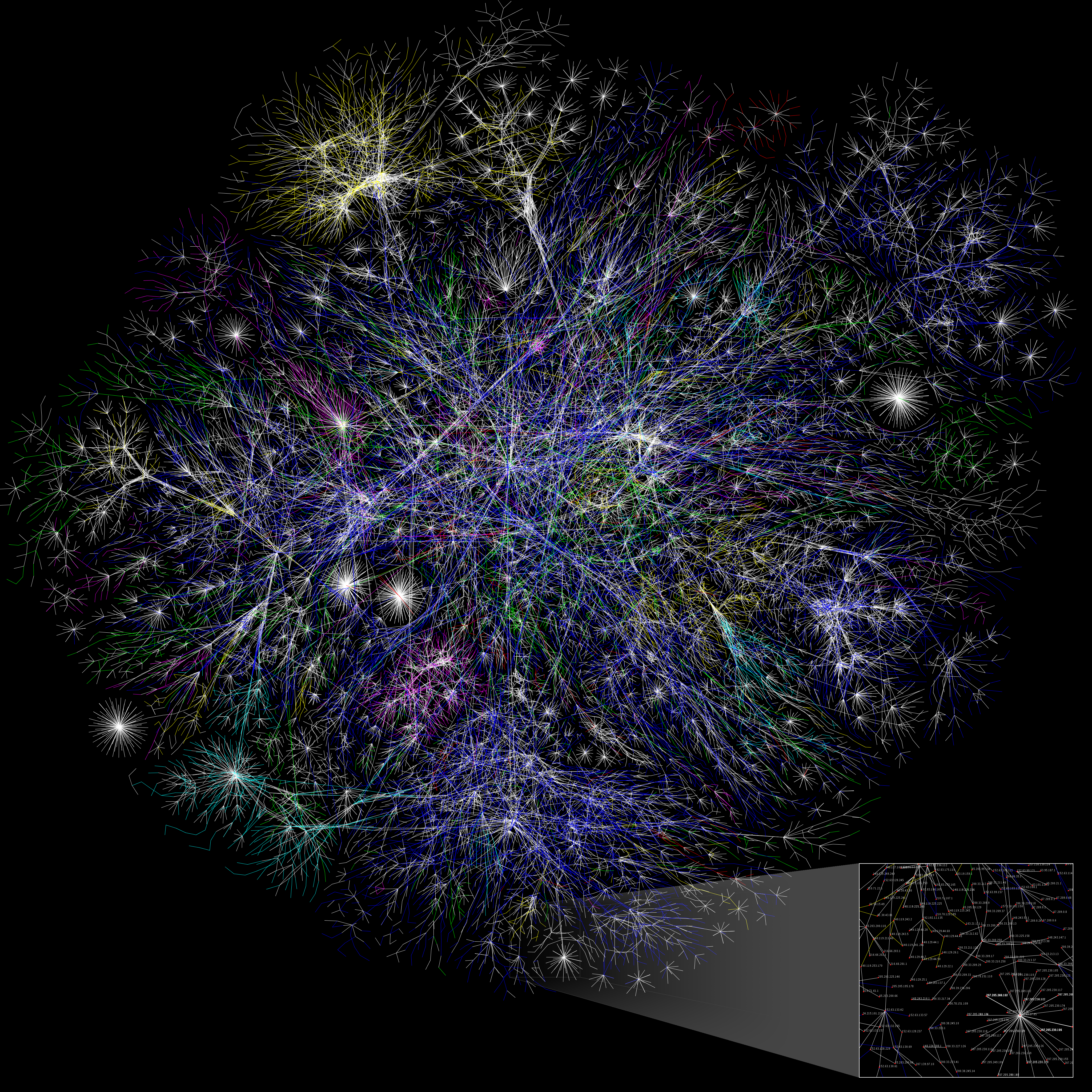 Partial map of the Internet based on the January 15, 2005 data found on . Each line is drawn between two nodes, representing two IP addresses. The length of the lines are indicative of the delay between those two nodes. This graph represents less than 30% of the Class C networks reachable by the data collection program in early 2005. Lines are color-coded according to their corresponding RFC 1918 allocation as follows: Dark blue: net, ca, us Green: com, org Red: mil, gov, edu Yellow: jp, cn, tw, au, de Magenta: uk, it, pl, fr Gold: br, kr, nl White: unknown